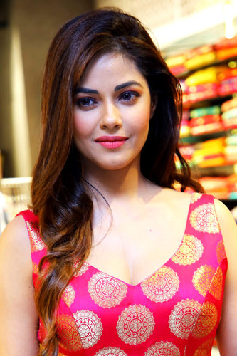 Meera Chopra snapped at the launch of Jashn’s Fall-Winter 2018 Collection in Delhi, Sep 1, 2018